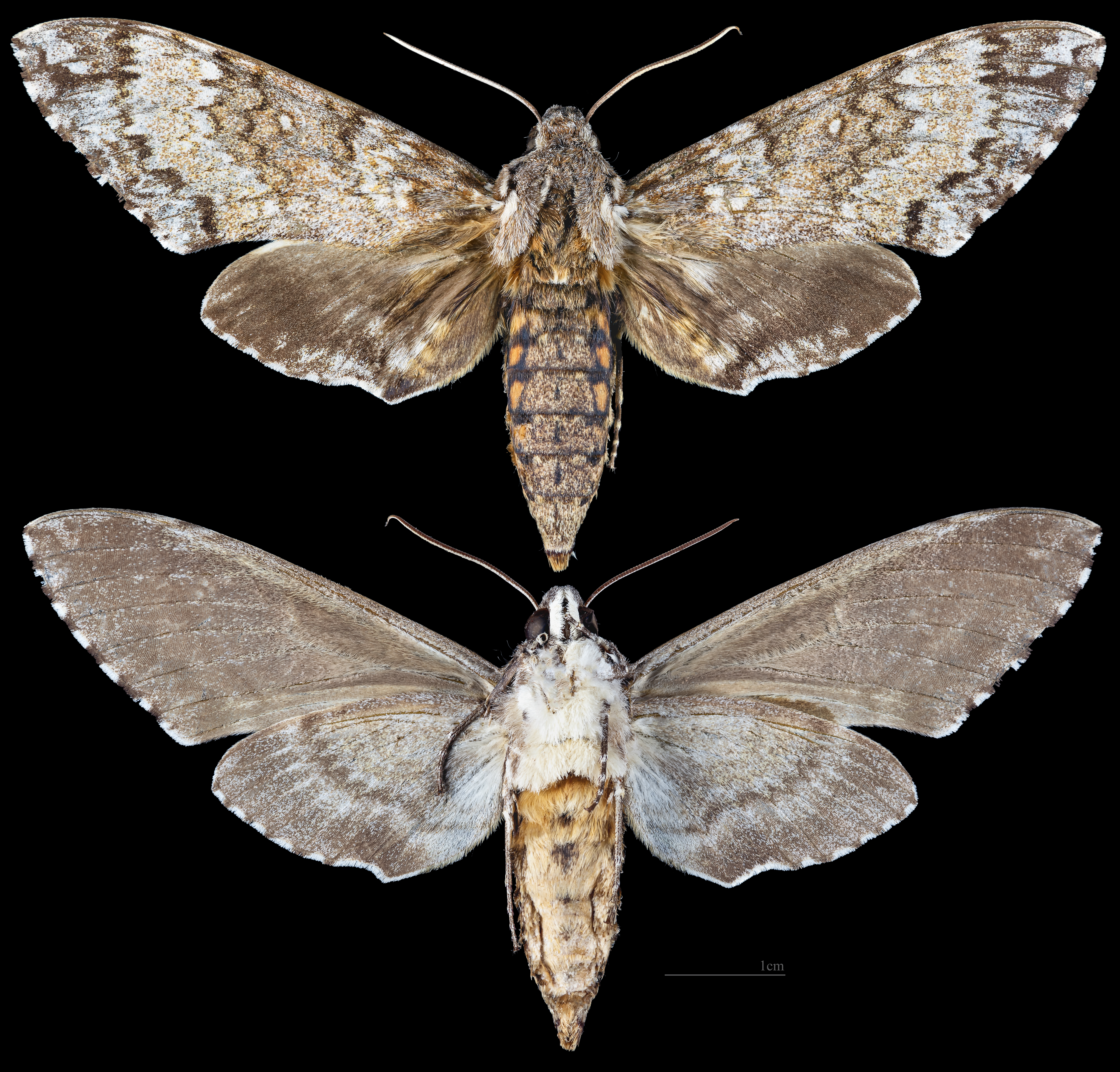 Manduca rustica - Two views of same specimen Collection of the Mathematician Laurent Schwartz